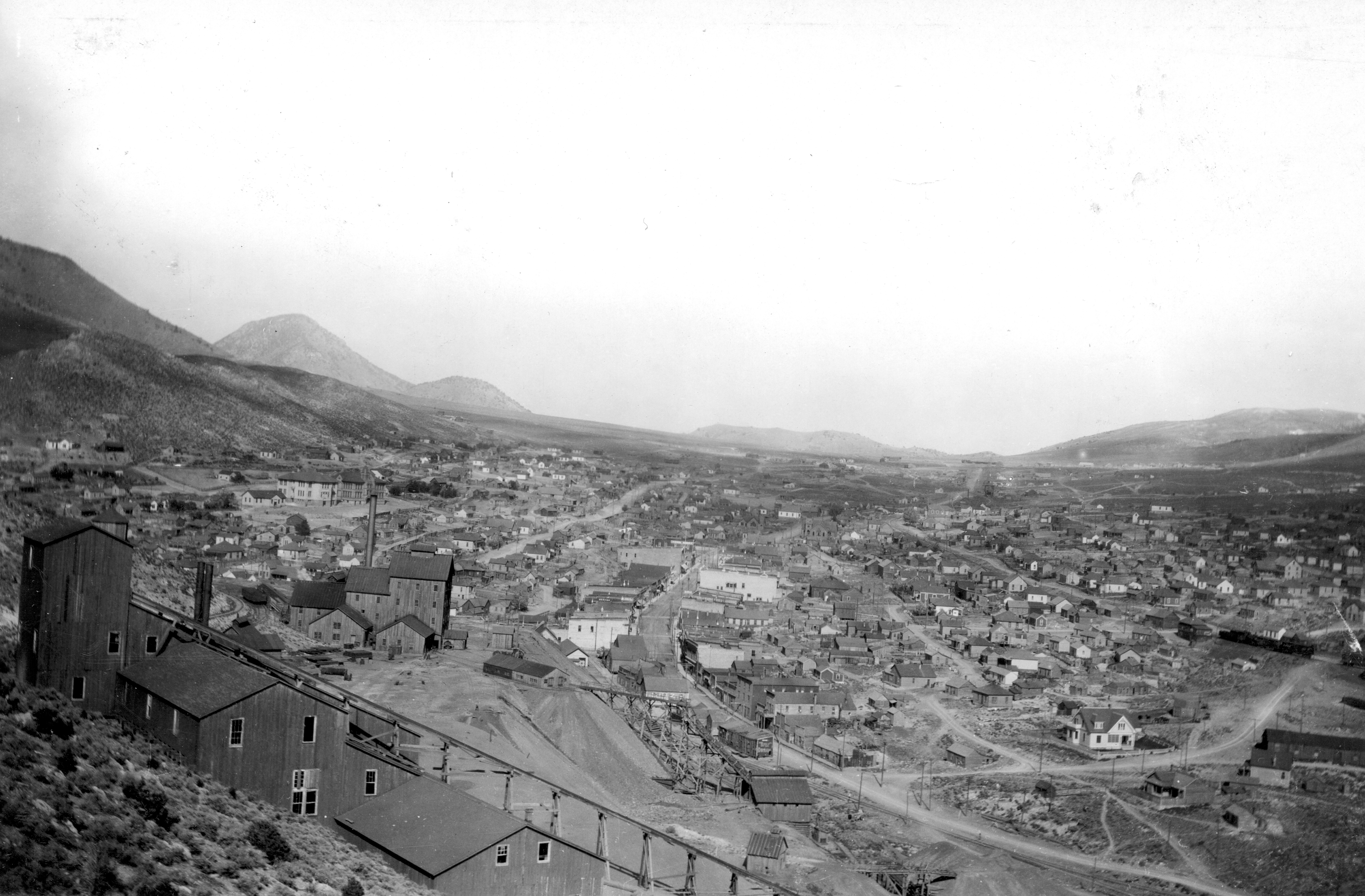 Panorama of the Tintic District at Eureka, Juab County, Utah.